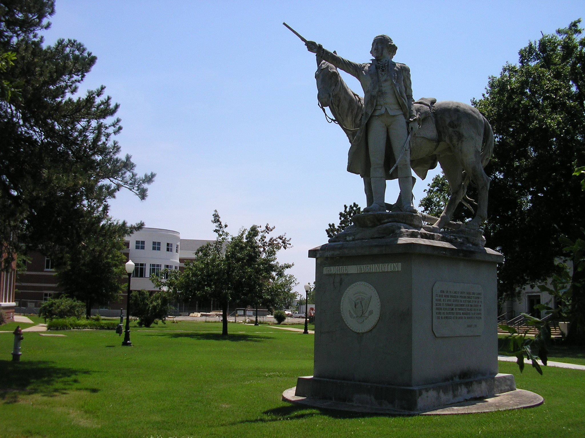 A statue of George Washington at Rogers State University in Claremore, Oklahoma, United States